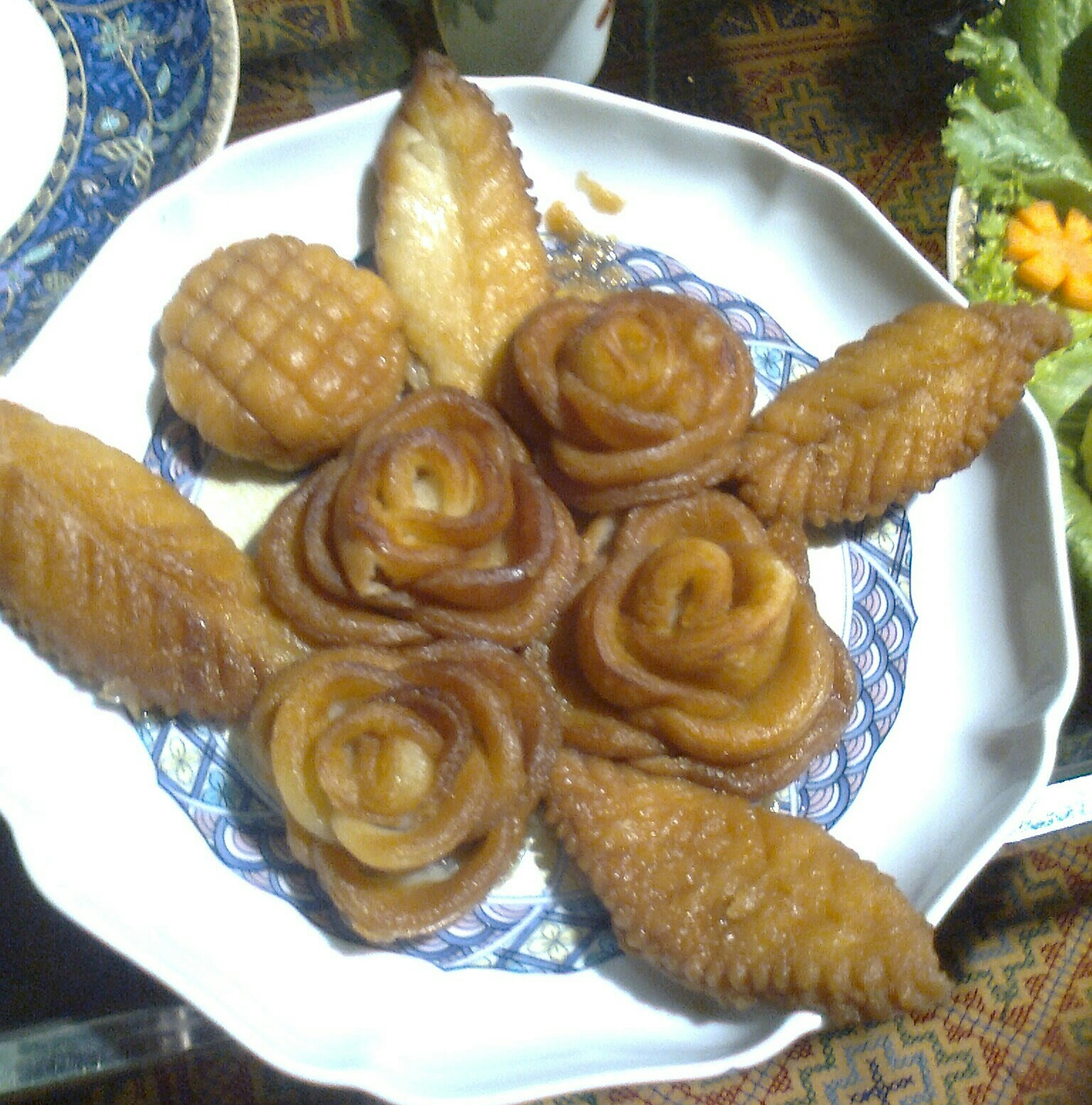 Pitha of Bangladesh